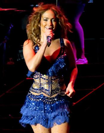 Jennifer Lopez live at the Pop Music Festival in São Paulo, Brazil.